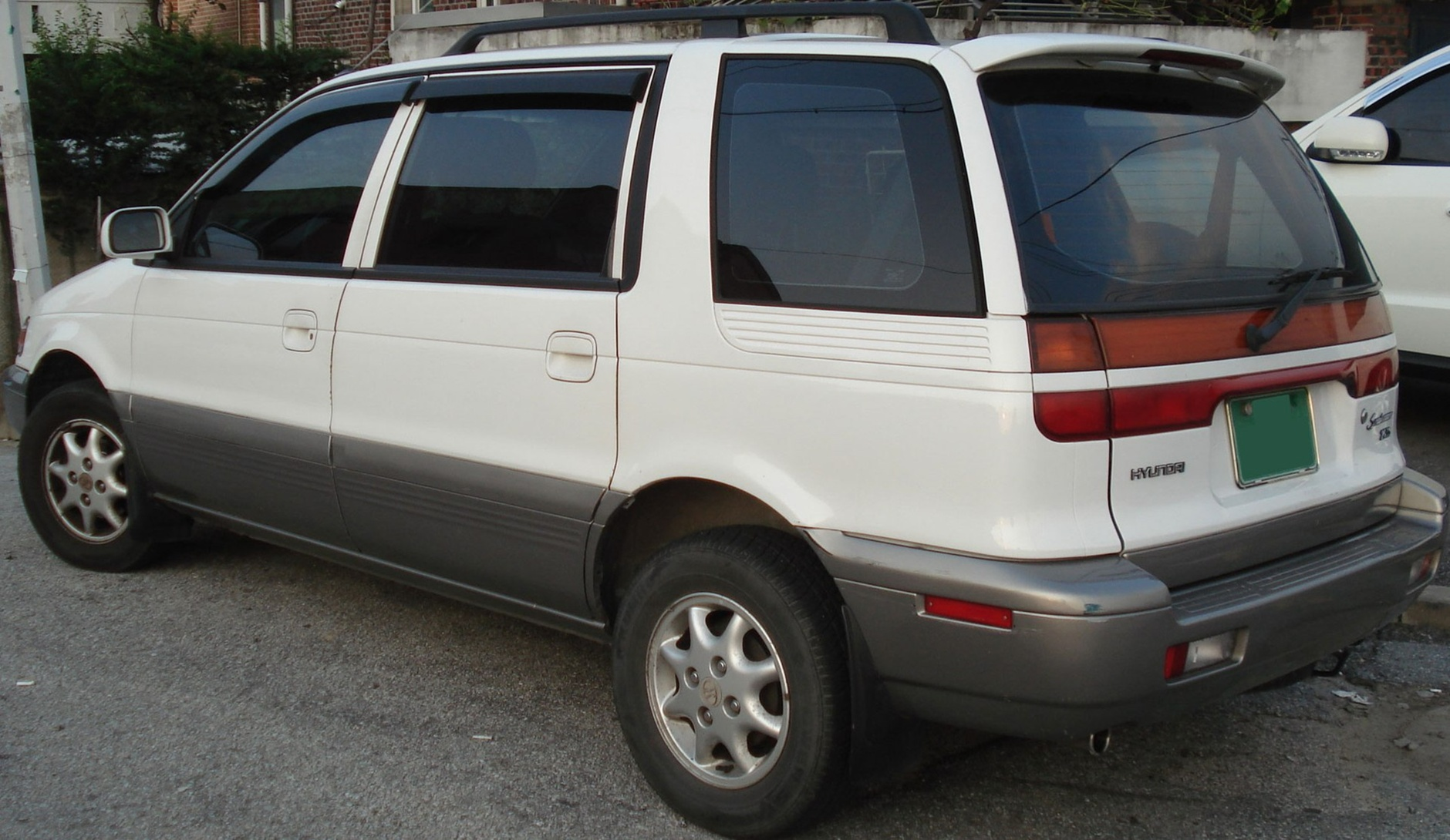 Hyundai Santamo